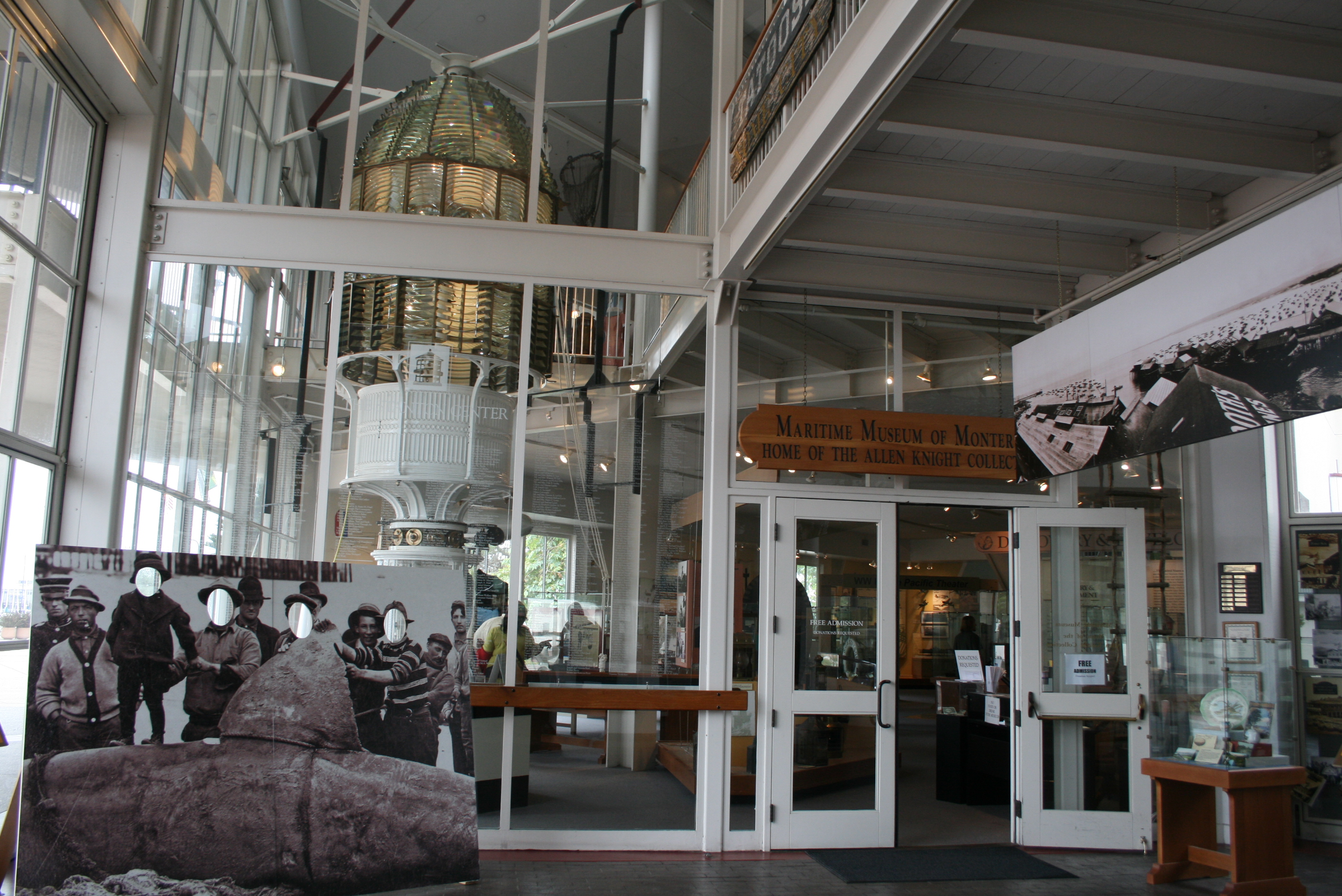 Entrance to the Monterey History & Maritime Museum in Monterey, California